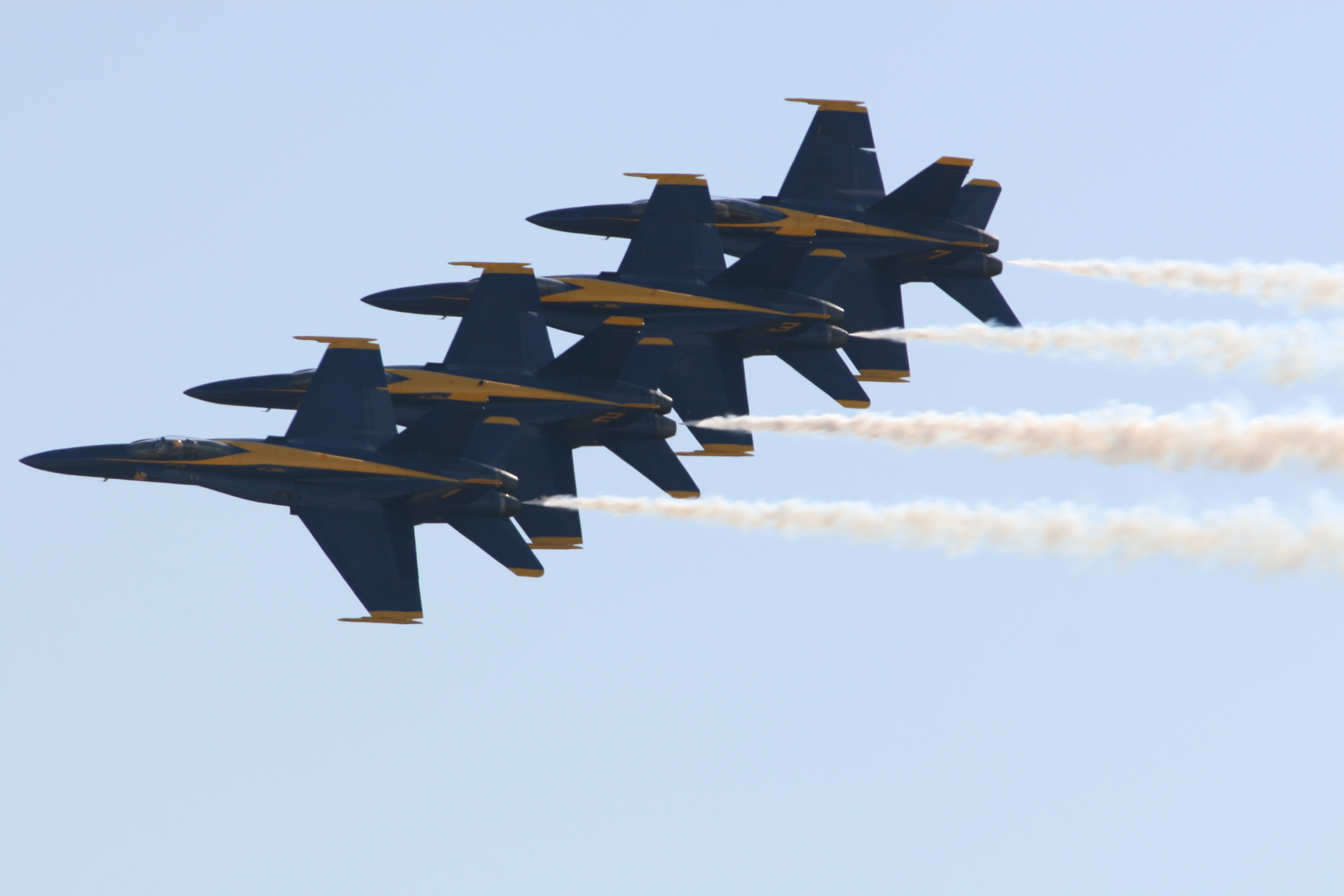 MARINE CORPS AIR STATION MIRAMAR, Calif. � The Blue Angels took to the sky Friday, Saturday and Sunday, performing more than 30 stunning aerobatics such as the slow and dirty roll and the four-point roll.